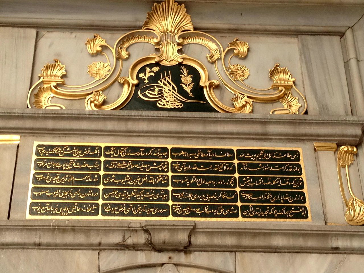 The Eyüp Sultan Mosque is situated in the Eyüp district of Istanbul, outside the city walls near the Golden Horn. The present building dates from the beginning of the 19th century. The mosque complex includes a mausoleum marking the spot where Eyüp (Job) al-Ansari, the standard-bearer and friend of the Islamic prophet Muhammad, is said to have been buried.